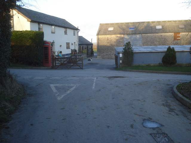 Yardro centre View north-east at the T junction. Just a few houses, a chapel, a telephone box and a post box.